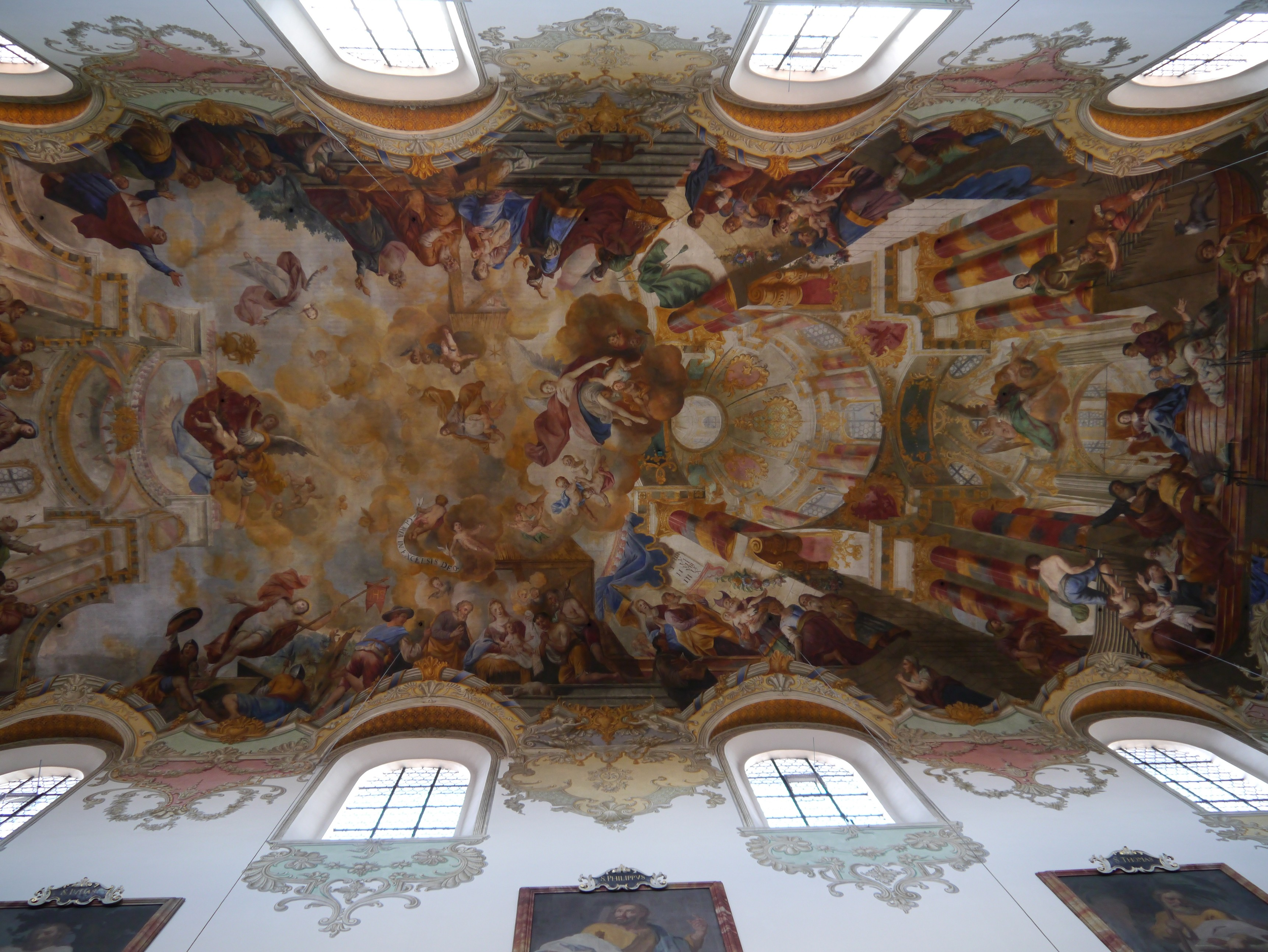 Ceiling of St. Martin, Biberach